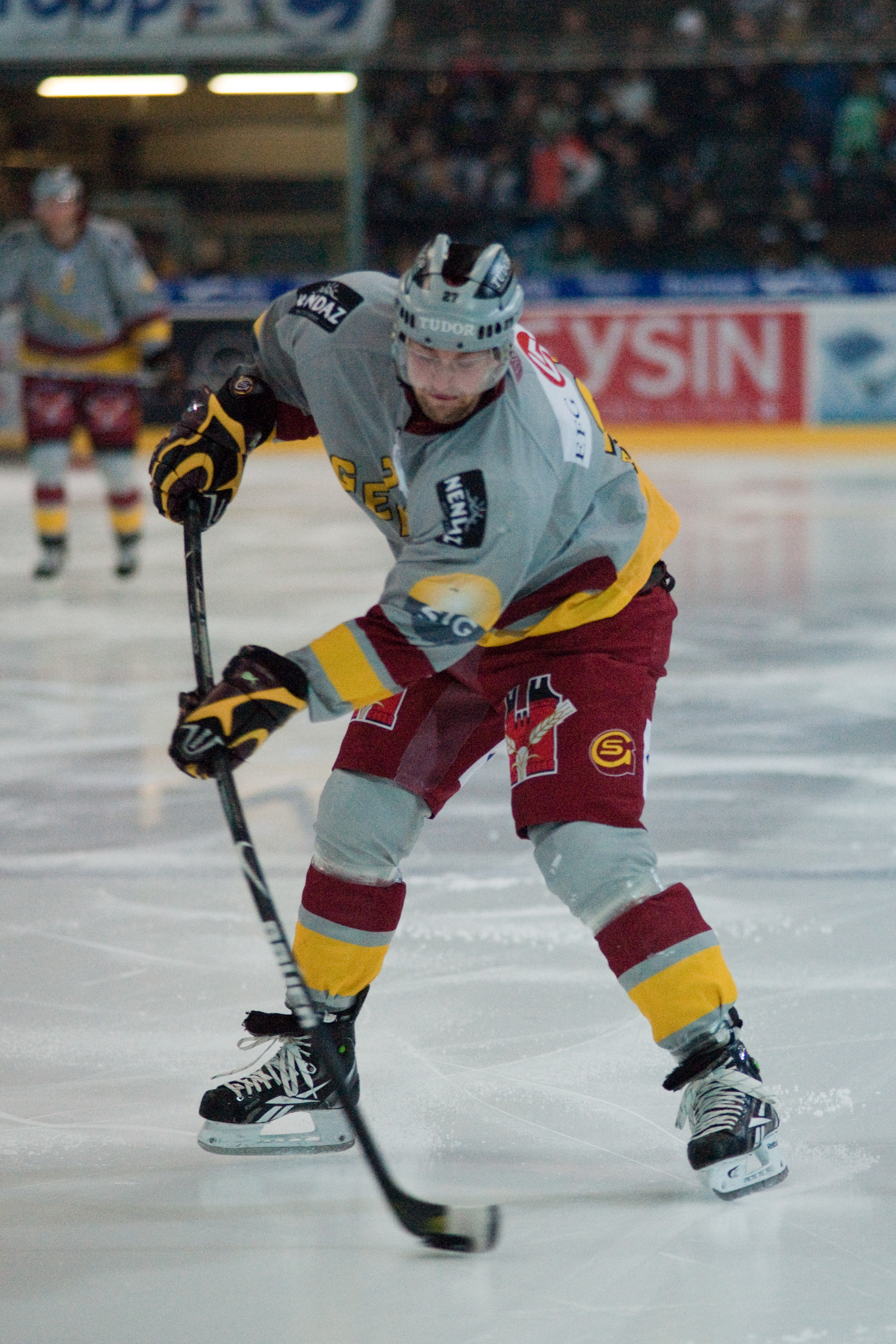 The making of this document was supported by Wikimedia CH. (Submit your project!) For all the files concerned, please see the category Supported by Wikimedia CH.